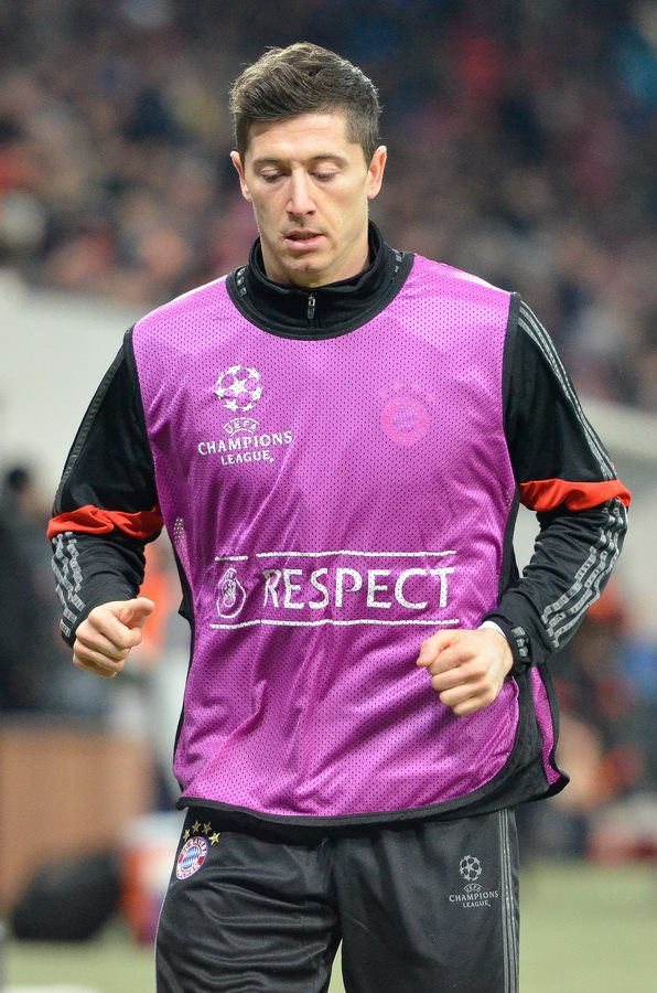 Robert Lewandowski playing for FC Bayern Munich in 2015.